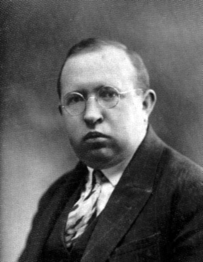 Photography of entrepreneur, inventor and resistance fighter Josef Vanek, the creator of the winning machine called Forbes. Picture was taken in 1939